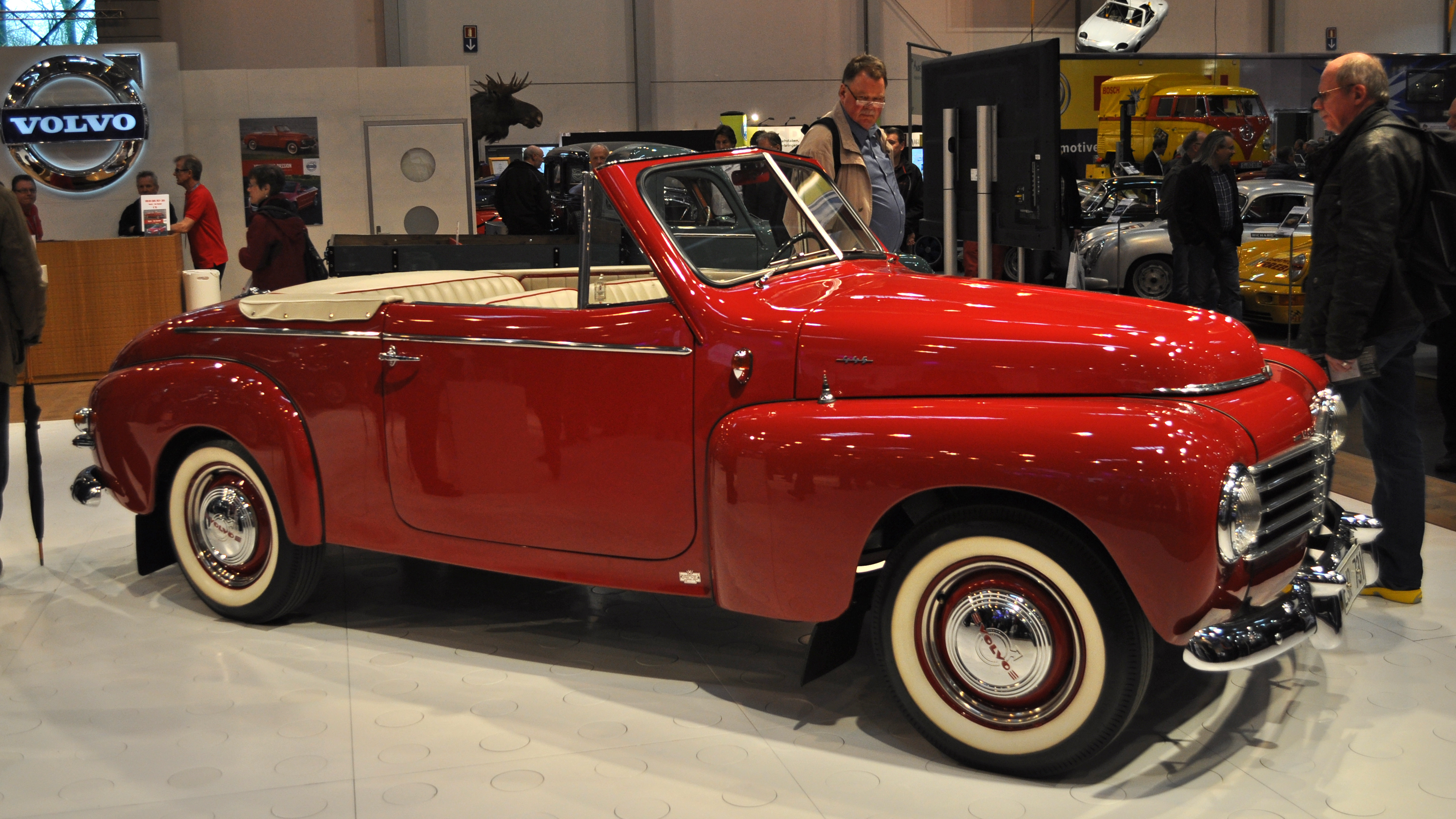 Volvo PV 445 Valbo-Cabriolet (1953) at the Technoclassica 2013 in Essen